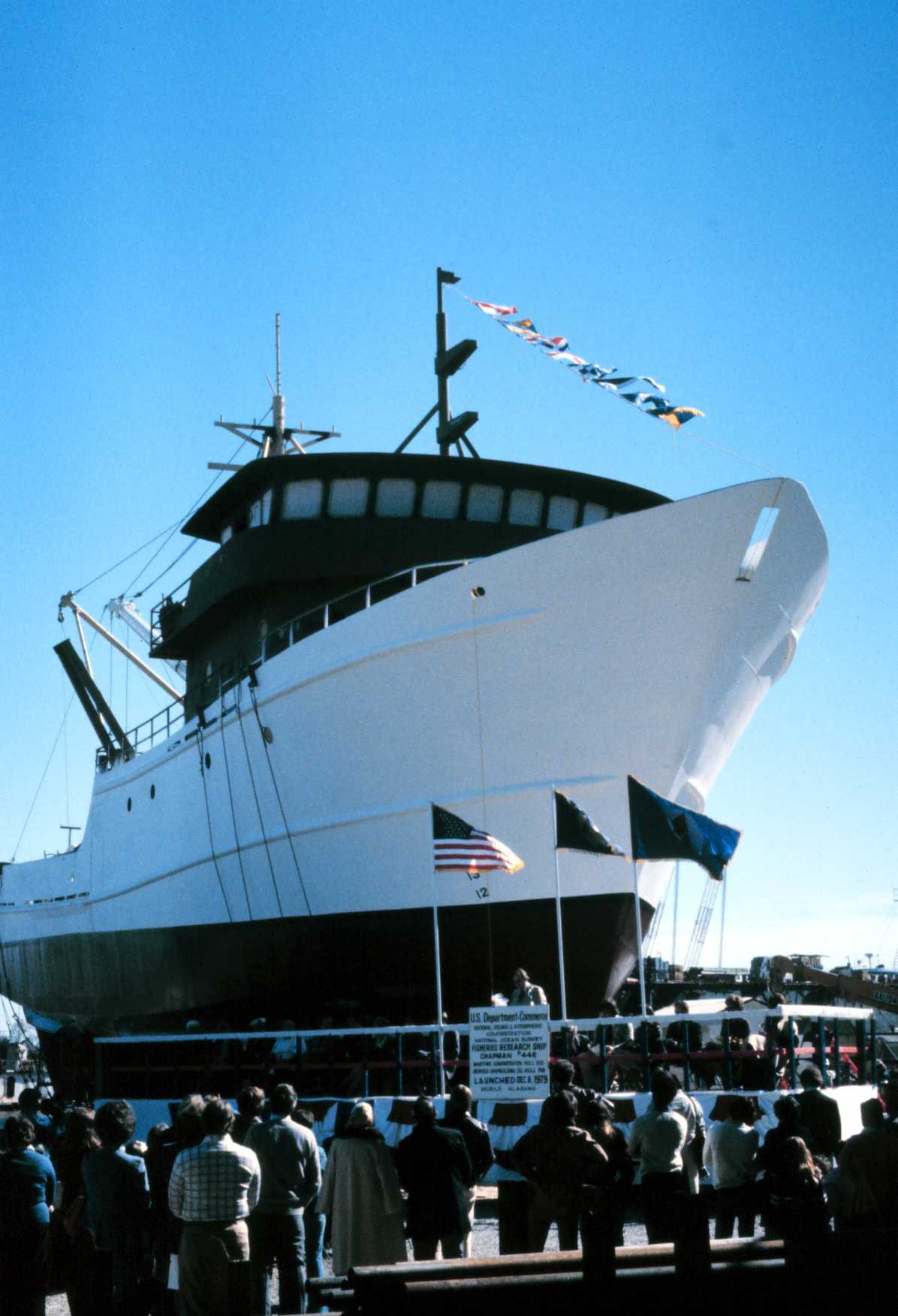 The launching ceremony for the National Oceanic and Atmospheric Administration fisheries research ship NOAAS Chapman (R 446) at the Bender Shipbuilding and Repair Company in Mobile, Alabama